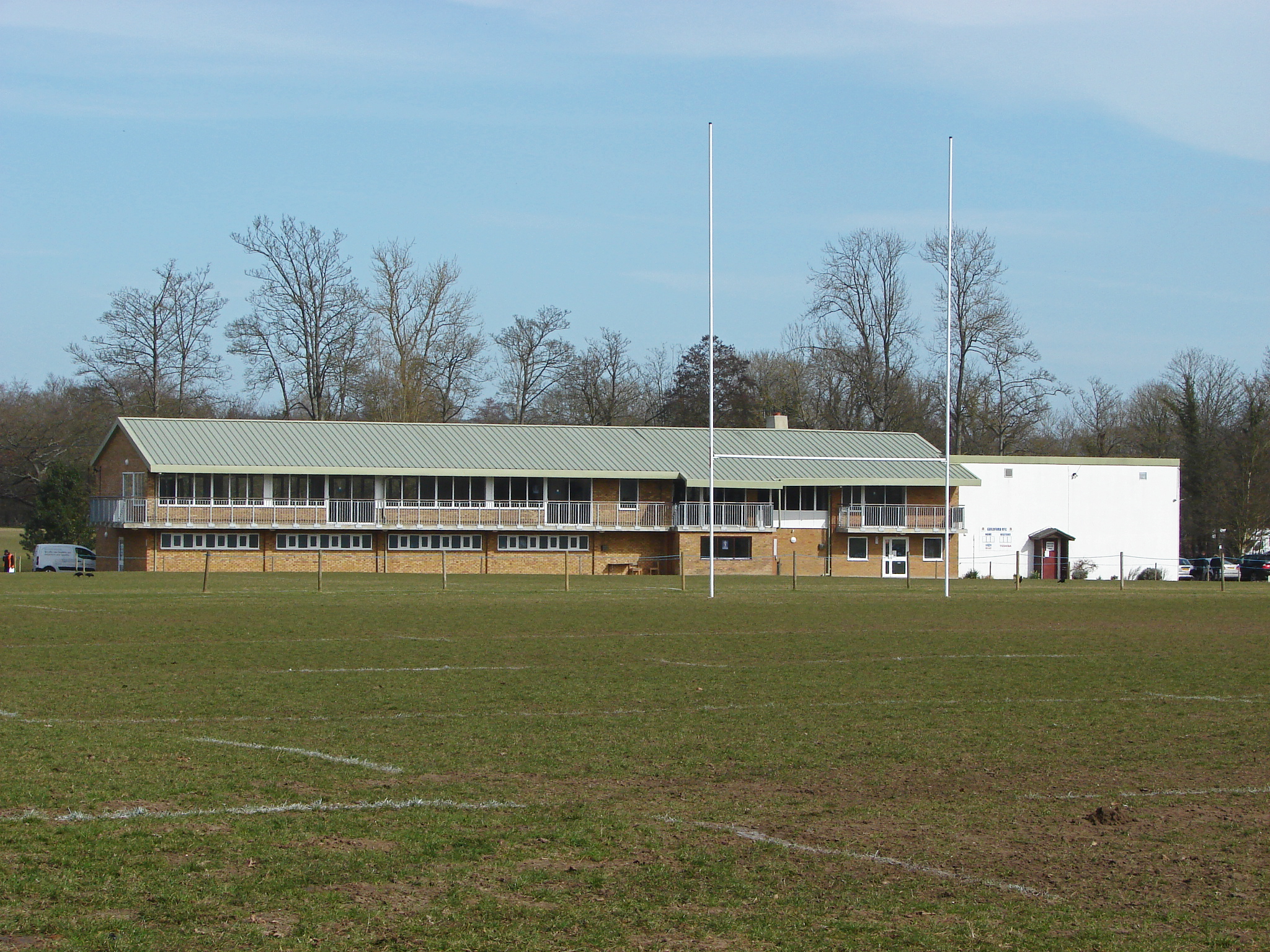 A picture of Guildford Rugby Club, in Farncombe, in March 2015